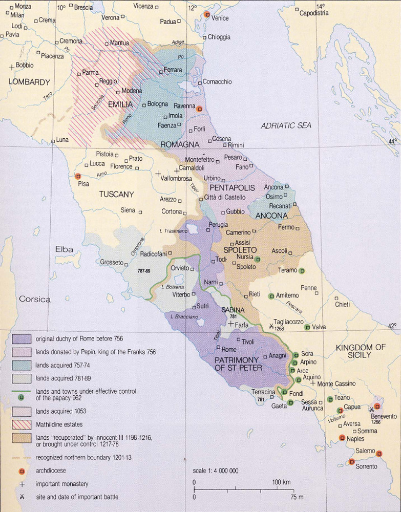 Papal state of the 8th - 13th century